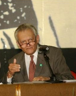 Economist Celso Furtado